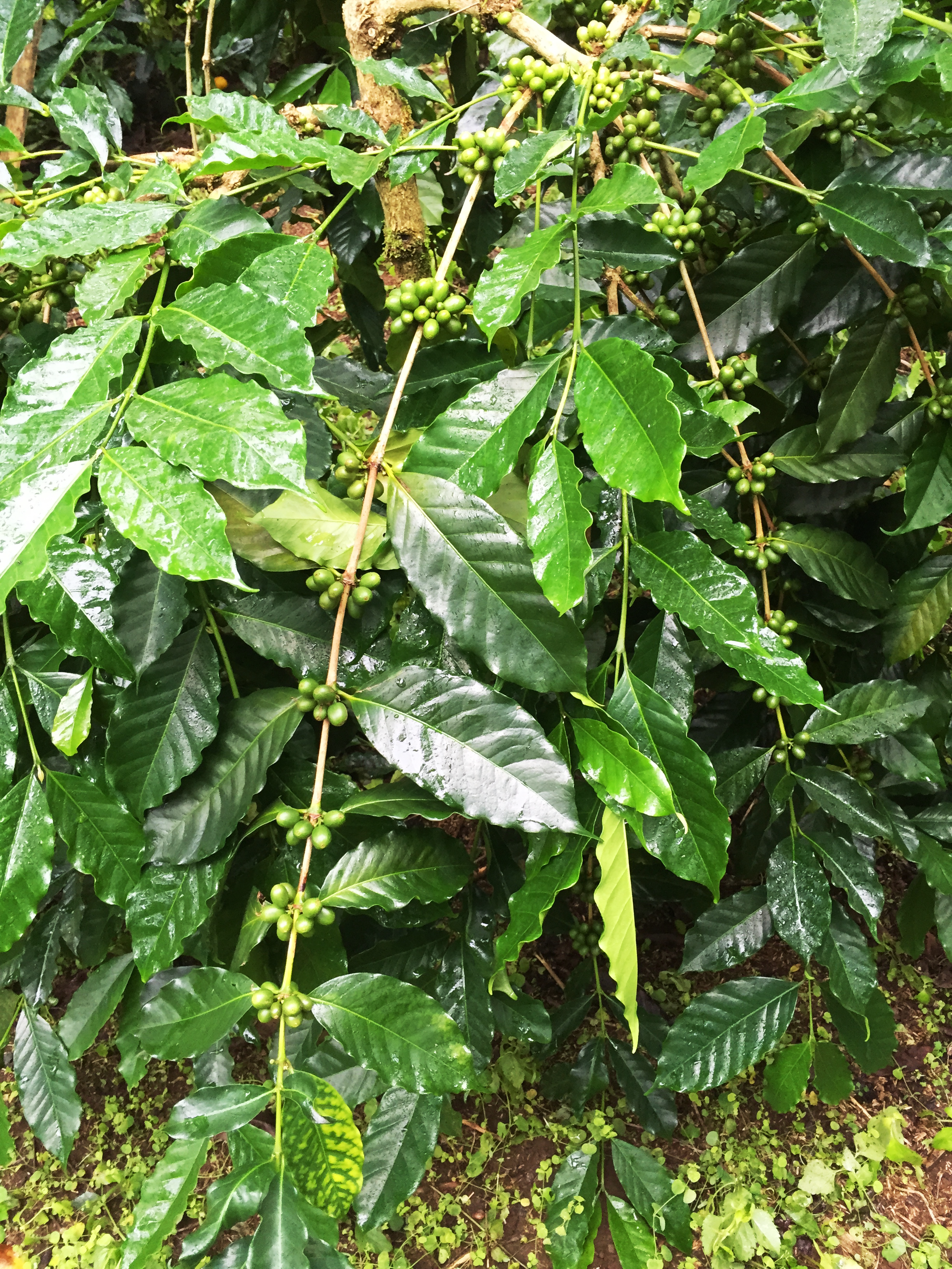 A branch of S795 coffee shrub with well developing nodes.